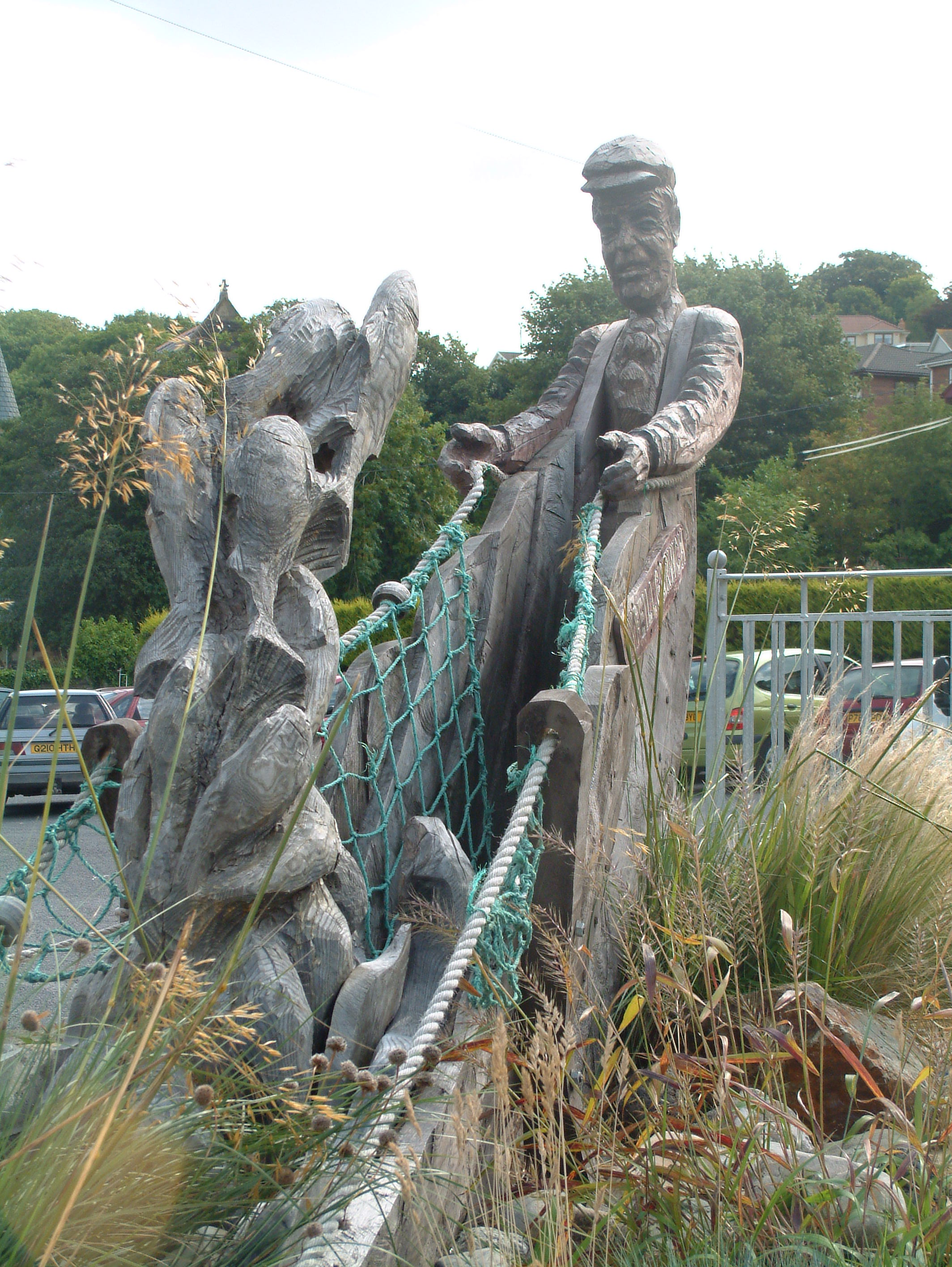 The fisherman statue near the train station in Ferryside